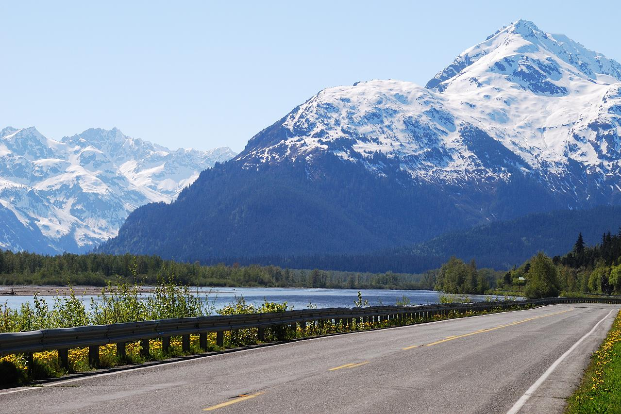 Haines Highway